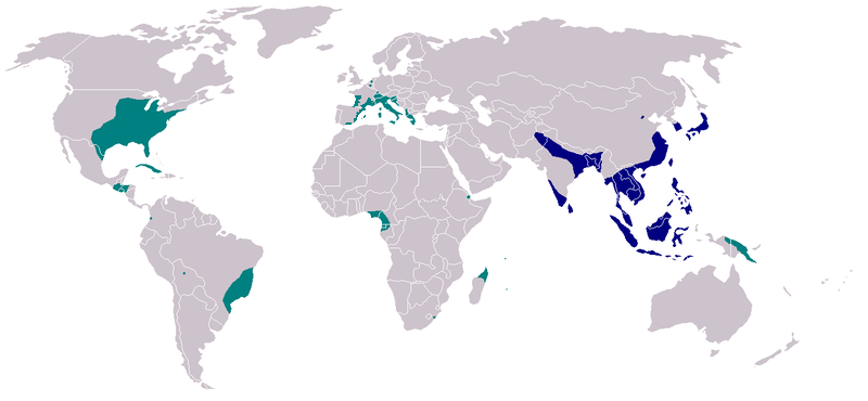 Worldwide distribution of Aedes albopictus (Stegomyia albopicta) in 2007 original distribution areas where it has been introduced in the last 30 years